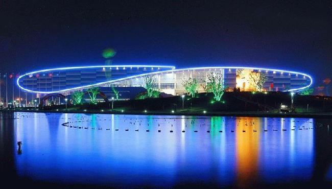 Bengbu Convention＆Exhibit Center at night